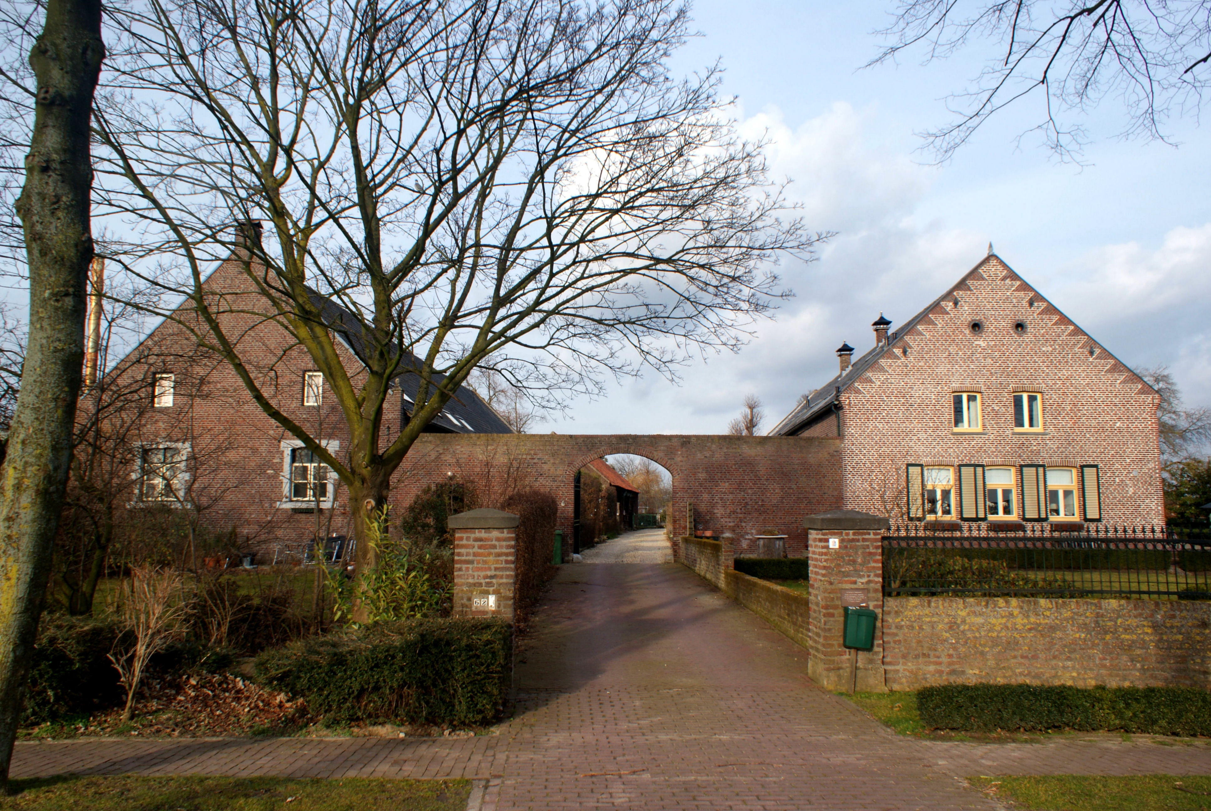 Malborgh Hof Castle Dorpsstraat Buggenum